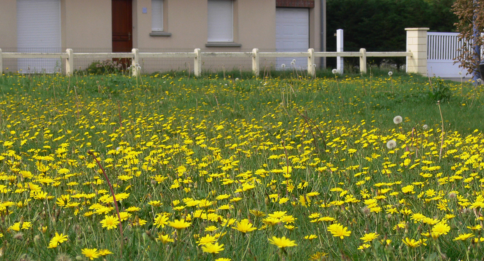 Natural flowers in grass near the sea, in the north of france.